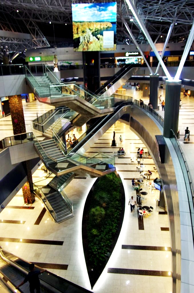 Recife Airport - Recife - Pernambuco - Brazil